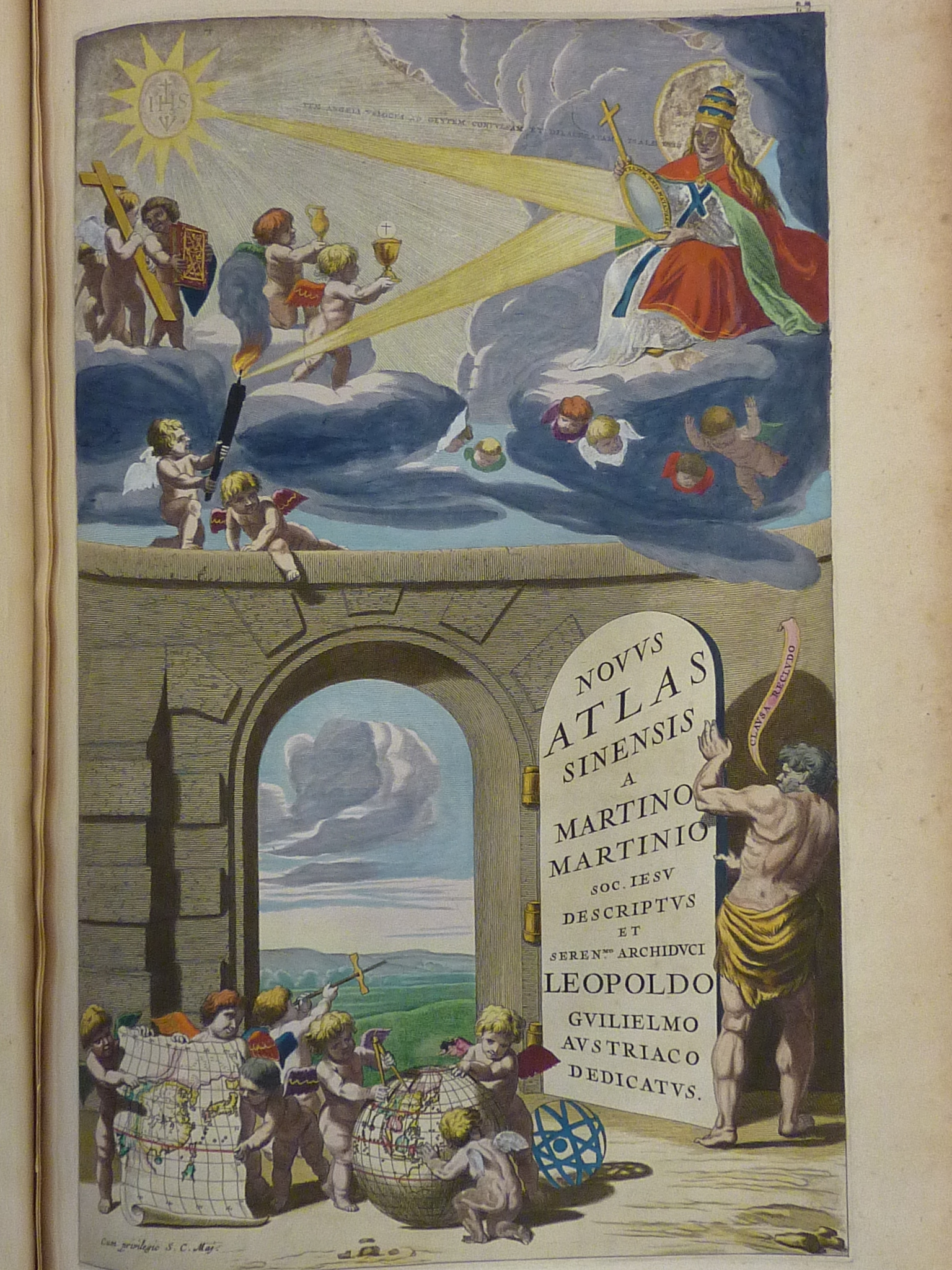 published in 1655 by Joan Blaeu as part of Volume 10 of his Atlas maior.